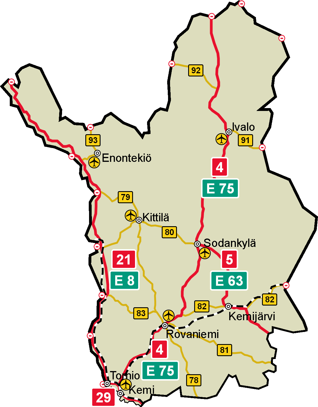 Traffic map of the Finnish province of Lapland. Shown: most important towns, 1st class national highways (red), 2nd class national highways (yellow), border crossing points, railroads and airports.